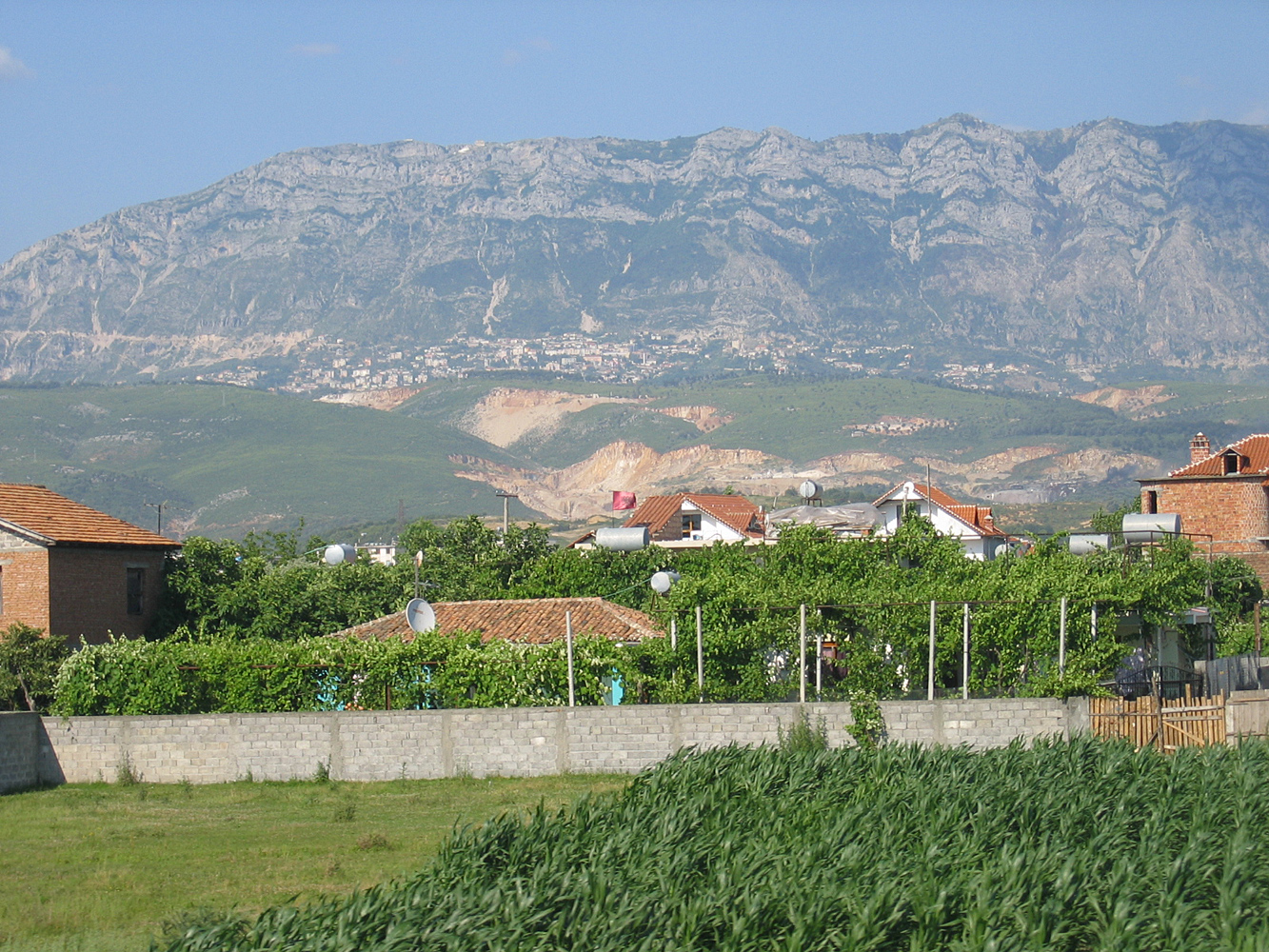 View from Fushë-Kruja to Kruja with the mountain range Mali i Skënderbeut in northern Albania.